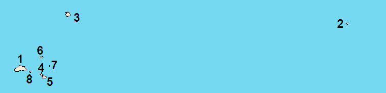 Map of Senkaku Islands with numbers